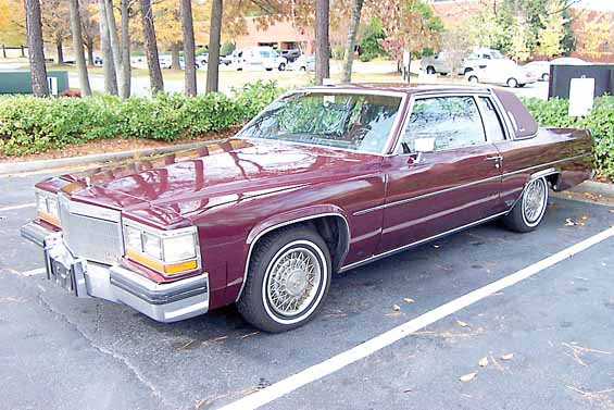 1980 Cadillac Coupe DeVille